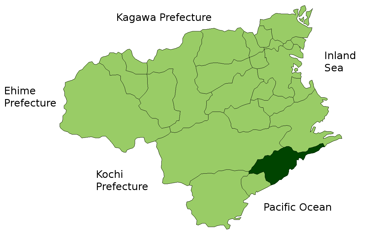 Map of Tokushima Prefecture highlighting Minami town. Borders of map as of October, 2006. (blank map used from [1]) See also Image:TokushimaMapCurrent.png